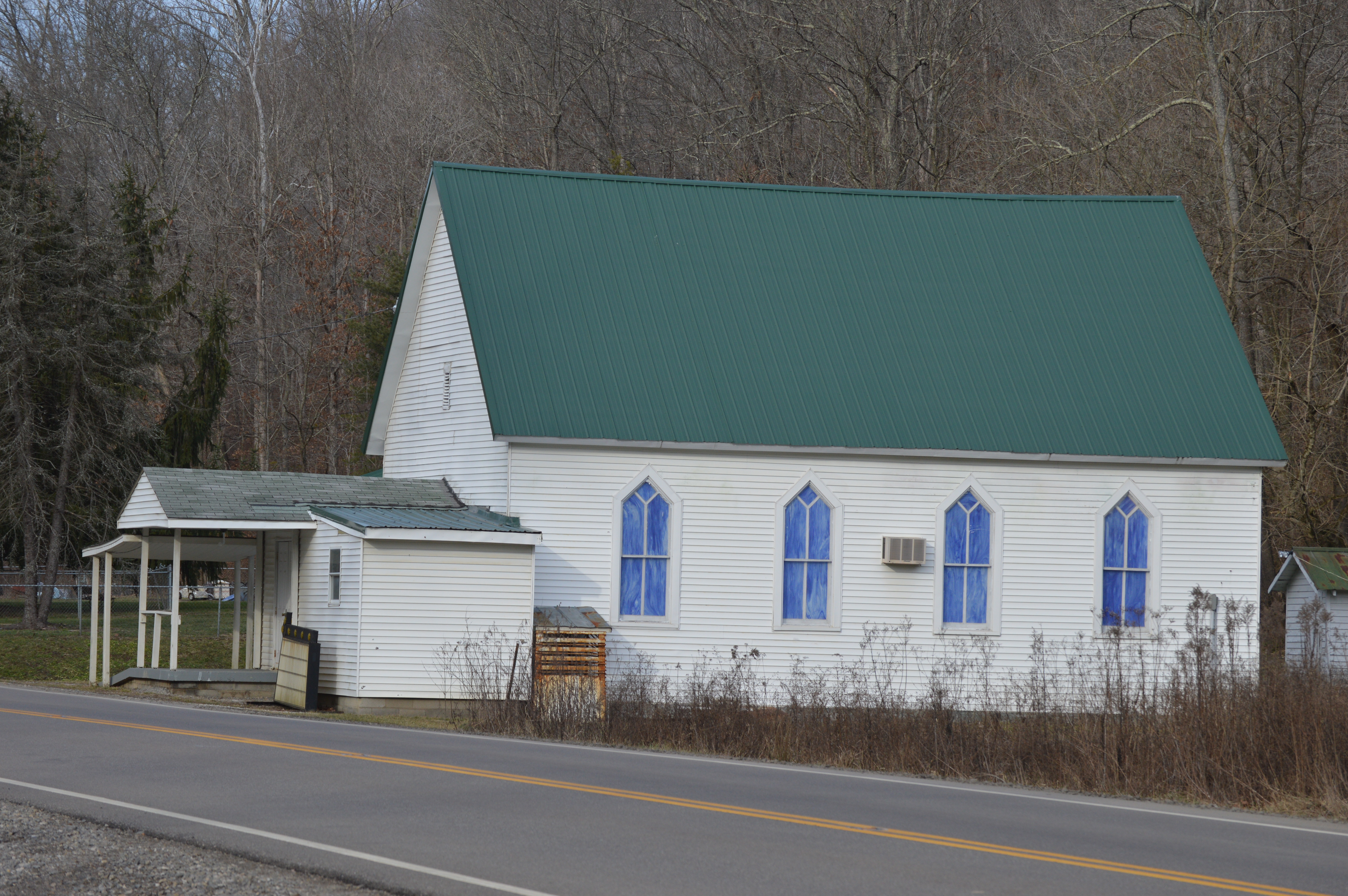 Southern side and front of the Mount Olive Community Church, located on the eastern side of State Route 93 on the southern edge of Washington Township, Lawrence County, Ohio, United States.